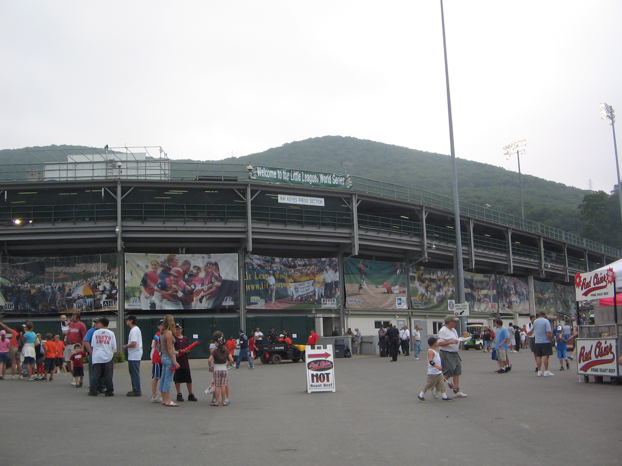 Exterior of Howard J. Lamade Stadium during the 2007 Little League World Series in South Williamsport, Lycoming County, Pennsylvania, USA